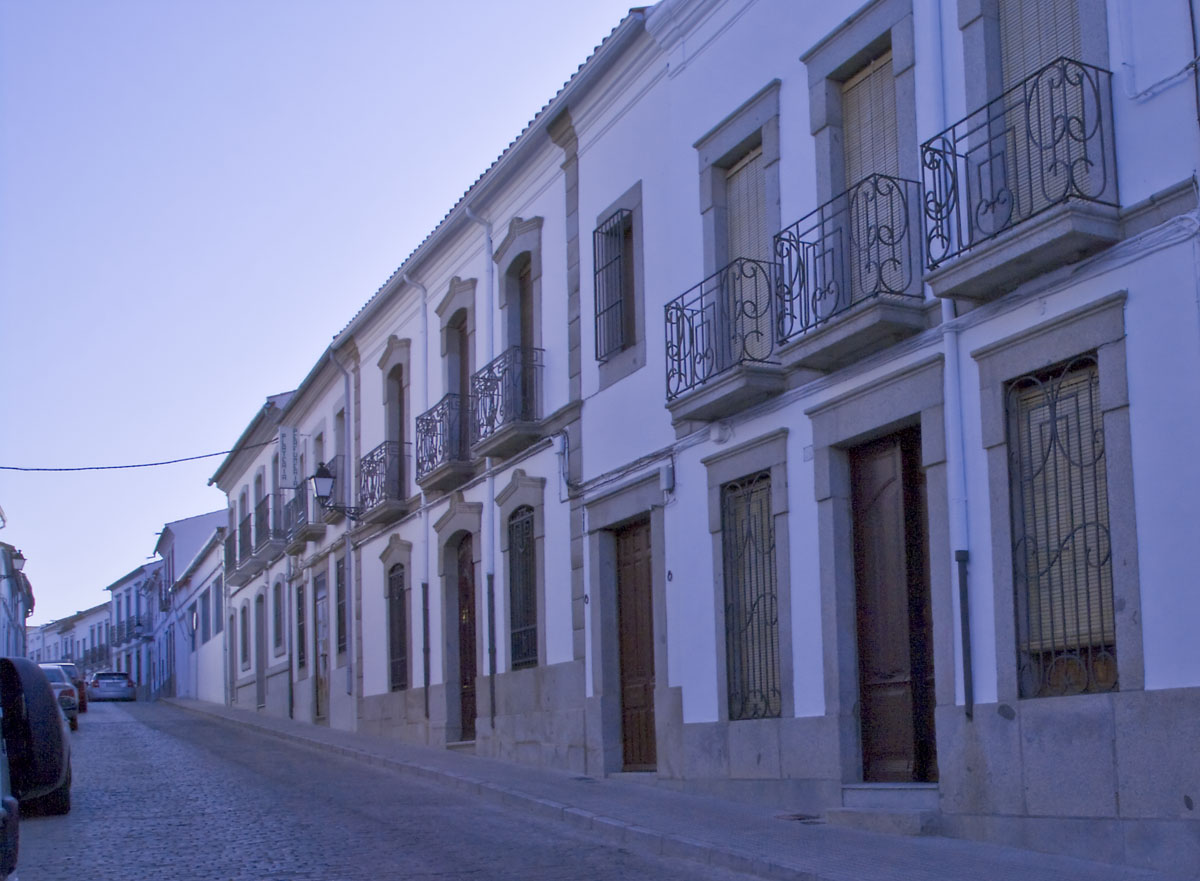 Calle de Villanueva